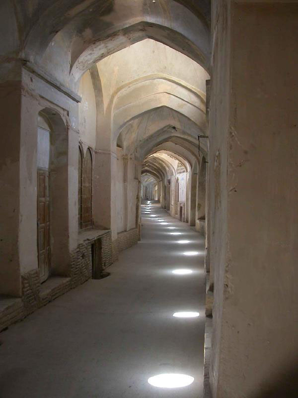 Nain Bazaar, Nain, Isfahan, İran